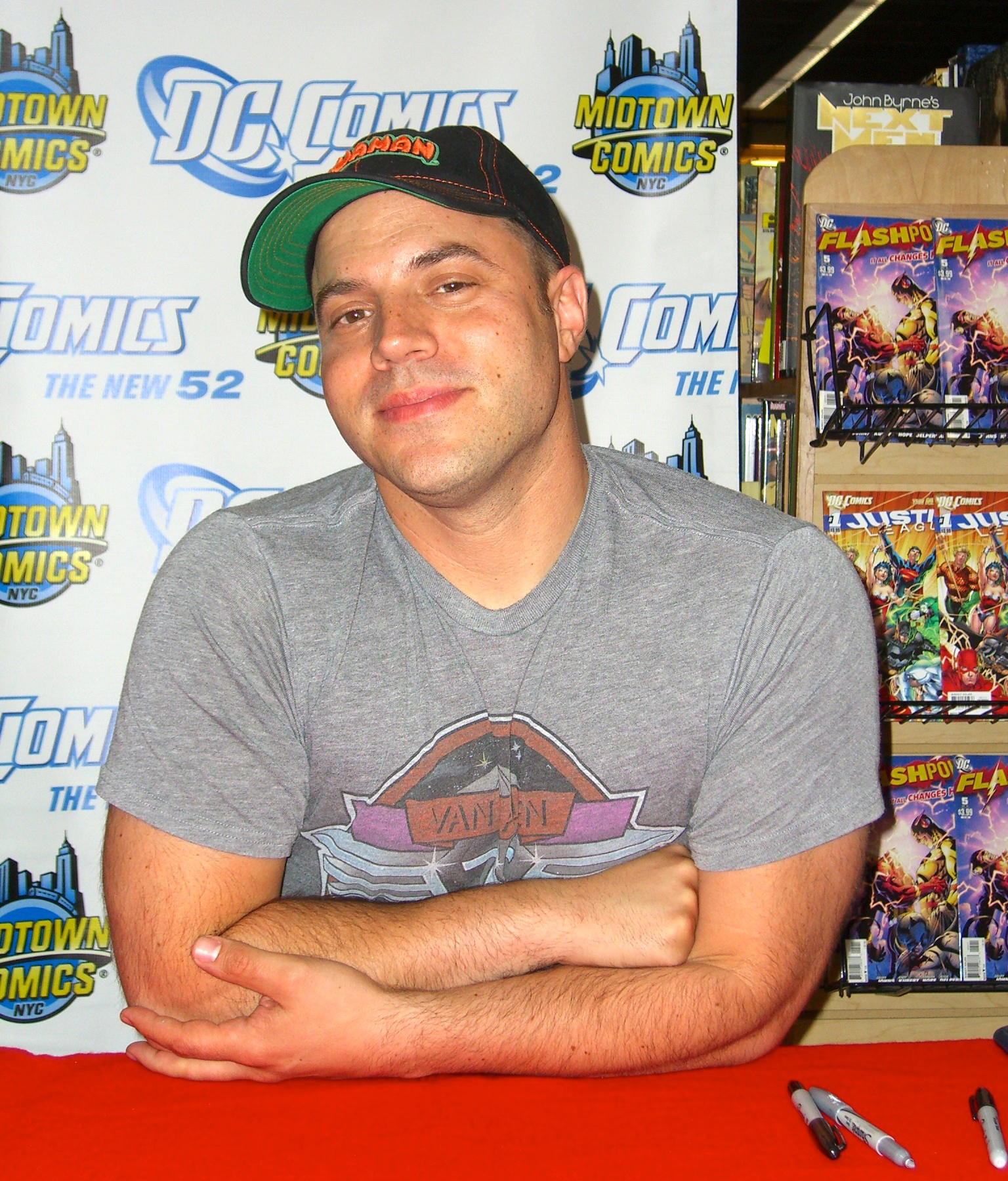 Comic book writer and publisher Geoff Johns at the August 31, 2011 midnight signing of Flashpoint #5 and Justice League #1, which he wrote. The two titles were part of "The New 52", the 2011 company-wide relaunch by DC Comics of its entire superhero comic book line. This photo was created by Luigi Novi. It is not in the public domain, and use of this file outside of the licensing terms is a copyright violation.